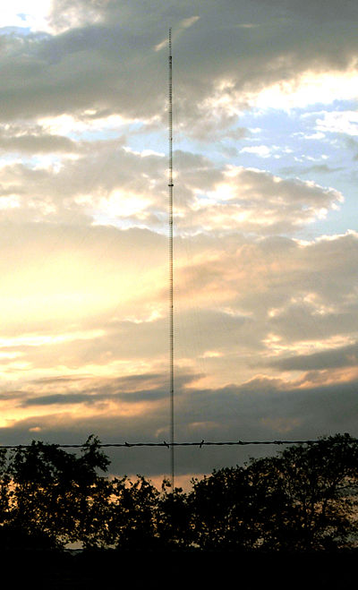 A photo of the Liberman Broadcasting Tower Era, taken from west of Era, Texas.